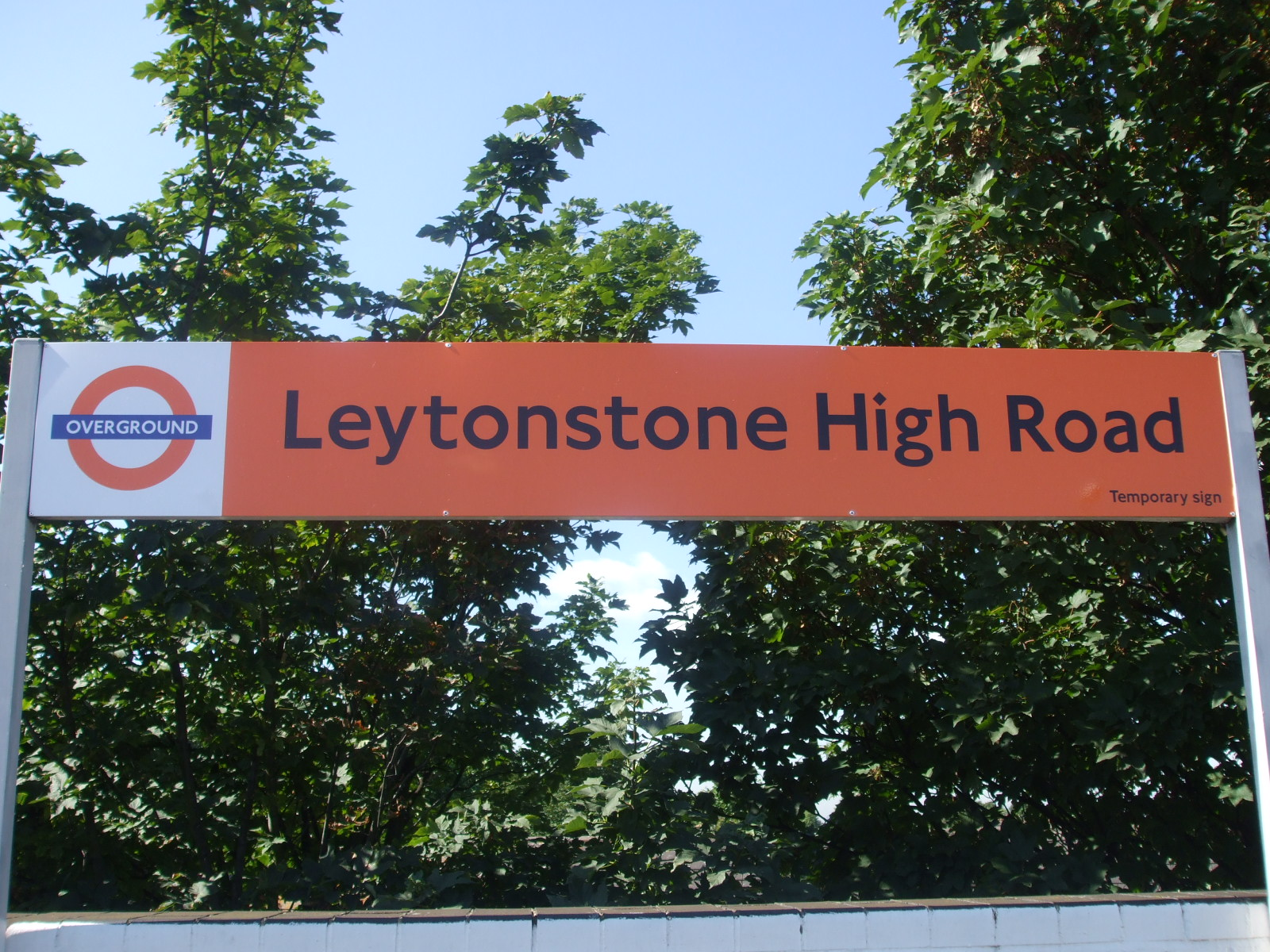 Leytonstone High Road station platform signage (temporary, photo taken August 2008)